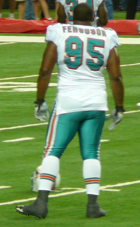 If used somewhere other than Wikipedia, Nelson, by name.